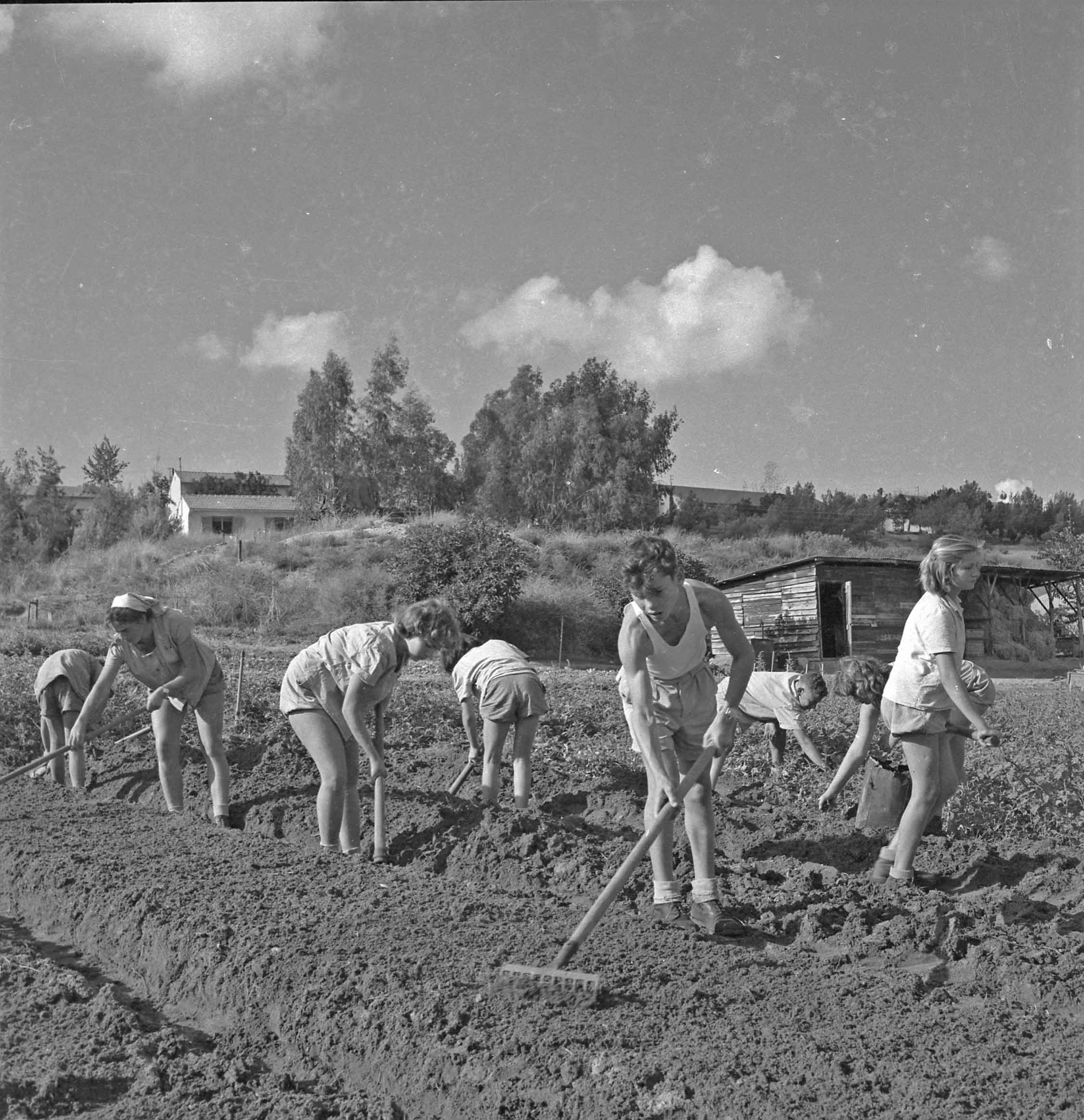 Givat Brenner Children Education, Education in Israel